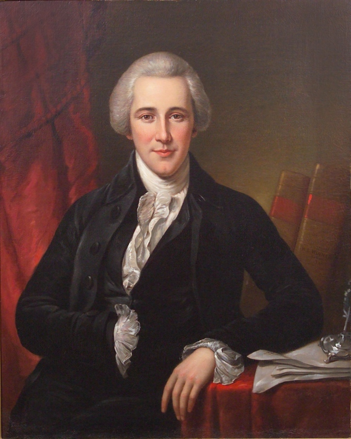 William Bradford, U.S. Attorney General